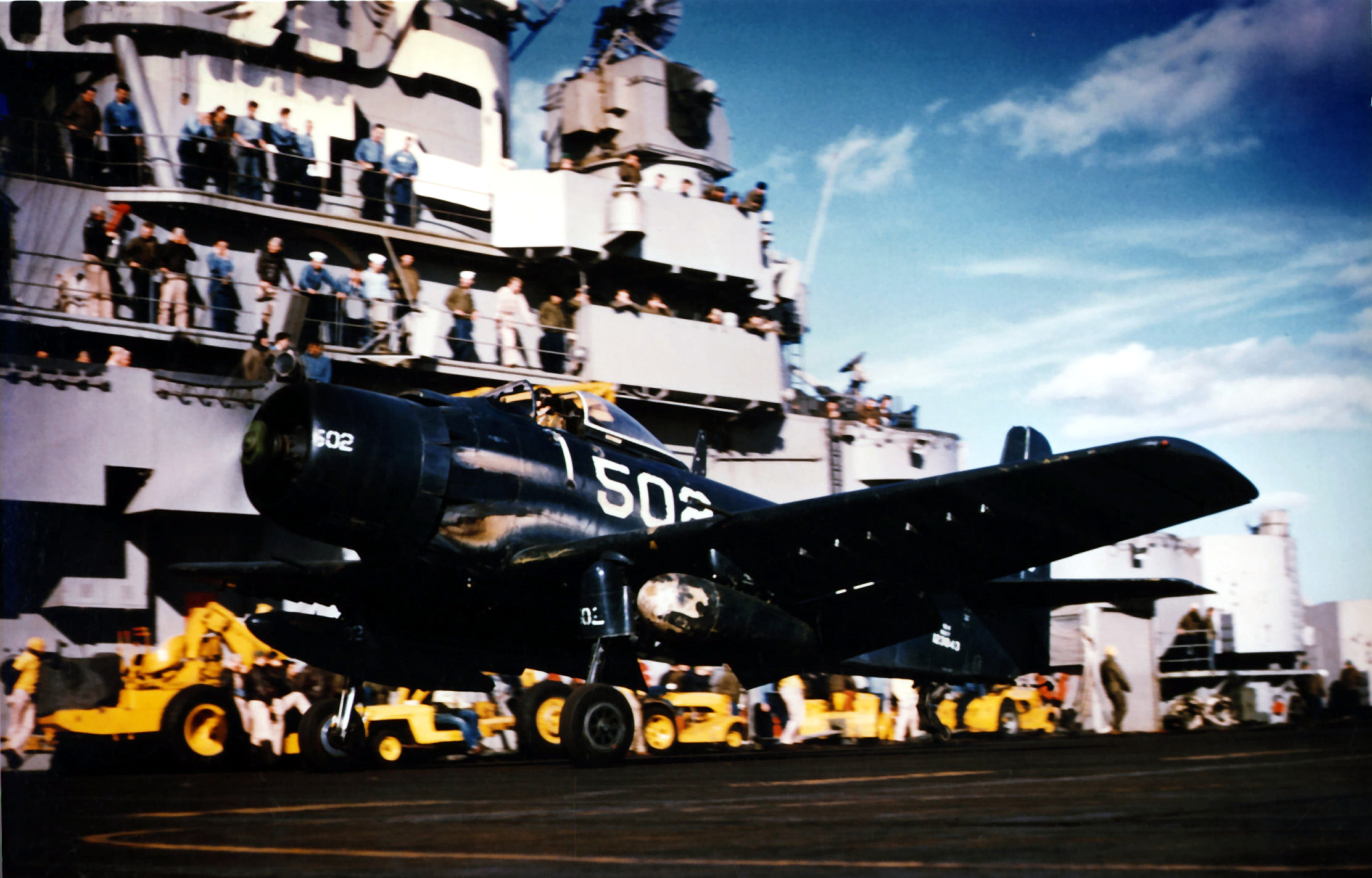 A U.S. Navy Douglas AD-4 Skyraider (BuNo 123843) from Attack Squadron VA-55 "Torpcats" taking off from the aircraft carrier USS Valley Forge (CV-45). VA-55 was assigned to Carrier Air Group 5 (CVG-5) aboard the Valley Forge for a deployment to the Western Pacific and Korea from 1 May to 1 December 1950.